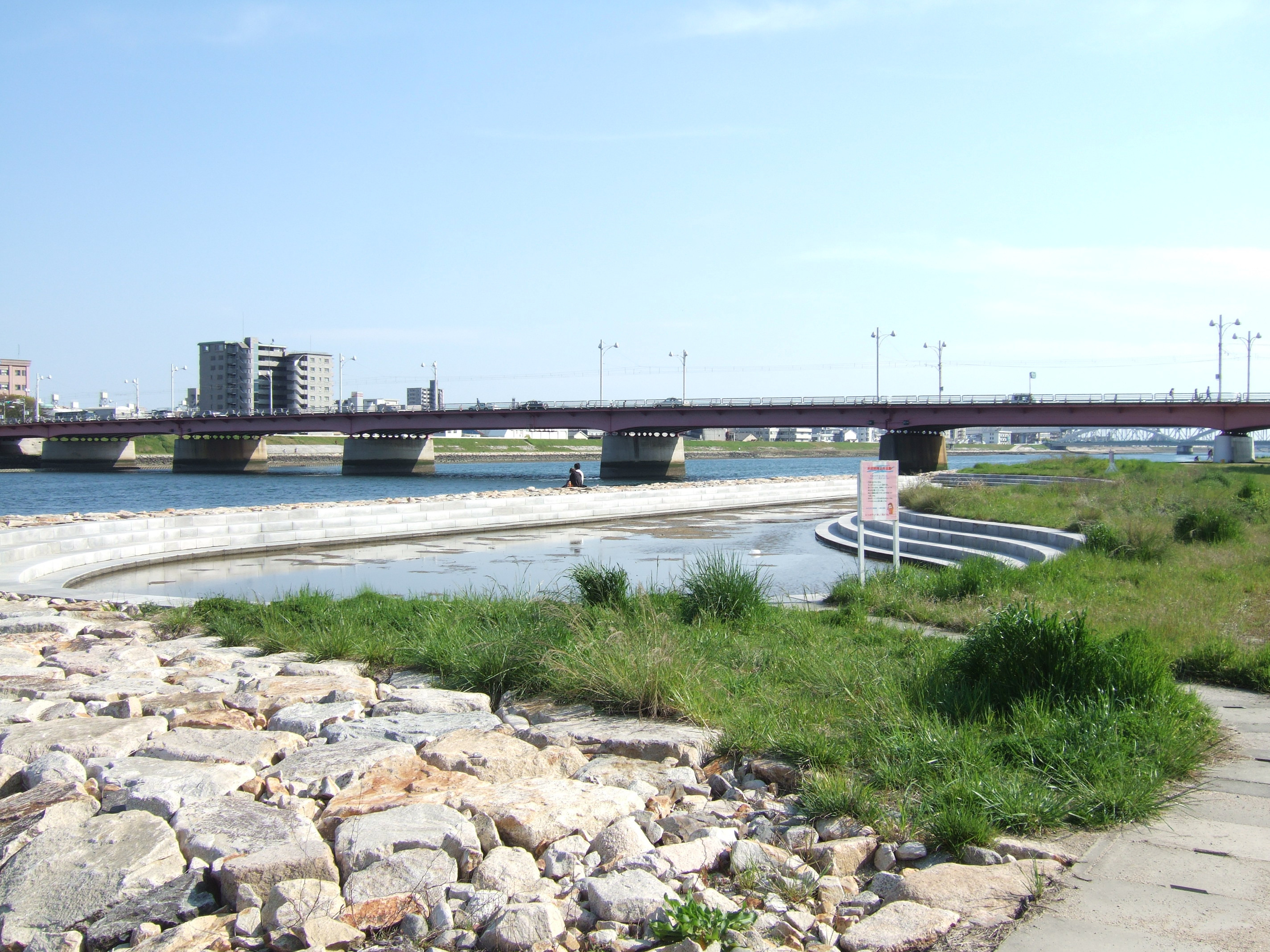 Ohta River Diversion Channel, River Area on West Side of New Koi Bridge